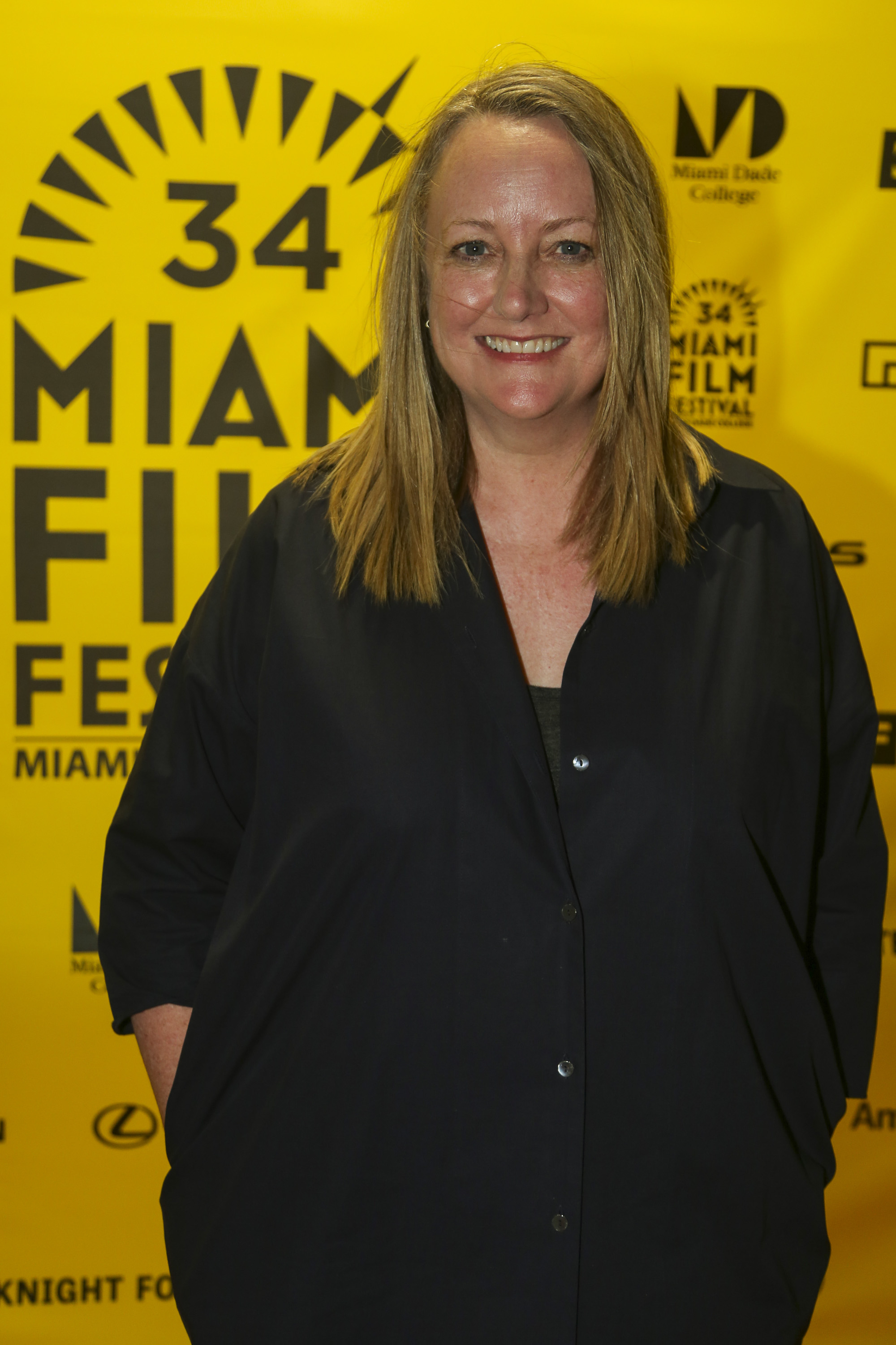 Director Susan Johnson at the Miami International Film Festival screening of Carrie Pilby, at the Regal Theater on March 5, 2017